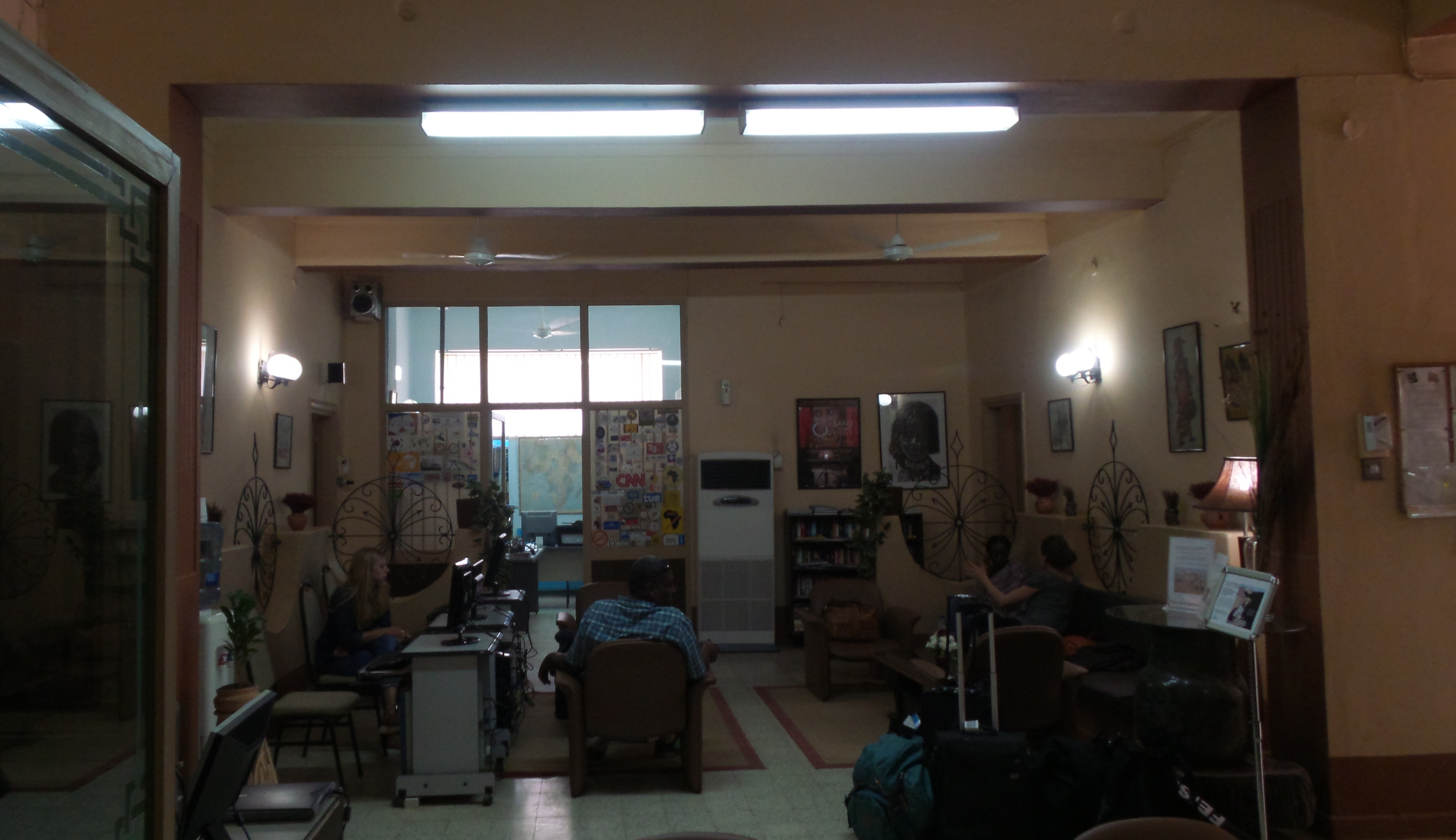 The lobby of the Acropole Hotel in Khartoum, Sudan